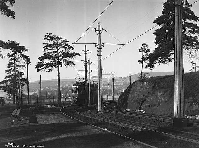 Ekeberg Line at Ekeberg in Oslo, Norway